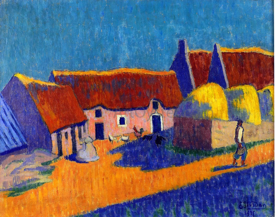 Breton village